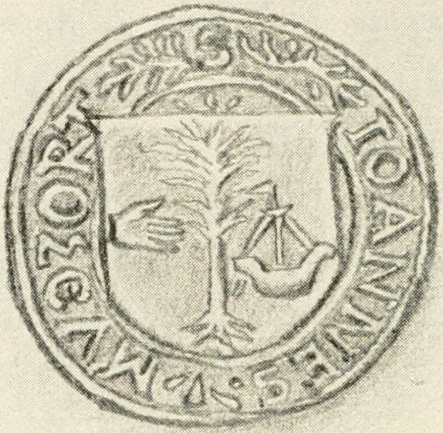 An image of the seal of John Moydartach (1572). He was a 16th century chiefs of Clan Macdonald of Clanranald.